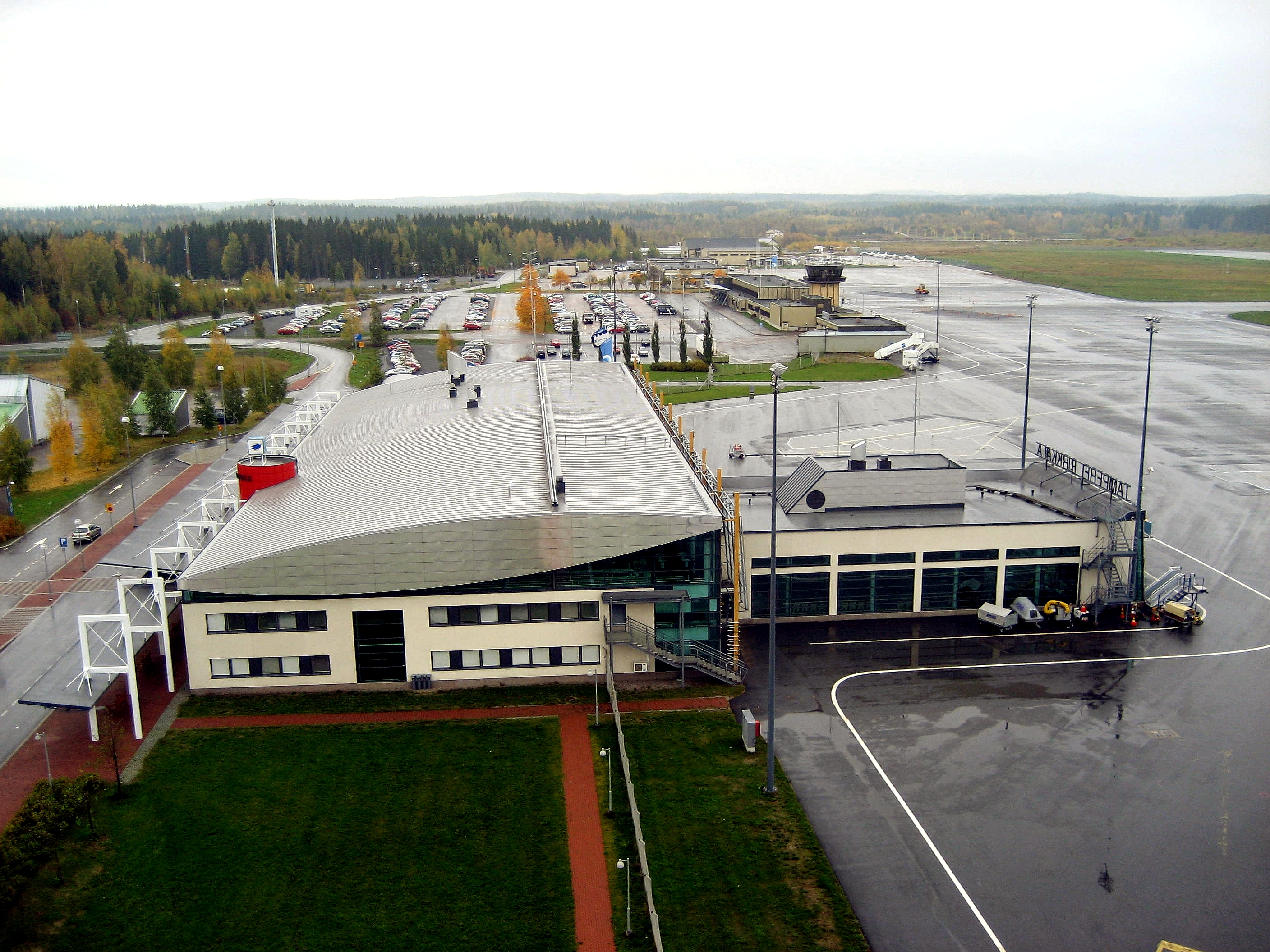 Tampere-Pirkkala Airport terminal 1 in Pirkkala, Finland, seen from the control tower.